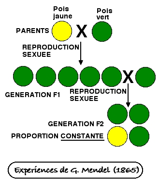 summary of the first Mendel experiment